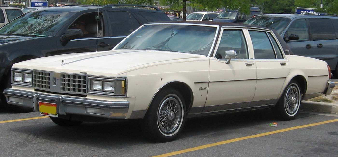 1985 Oldsmobile Delta 88 Royale Brougham 4-Door Sedan, photographed in USA.